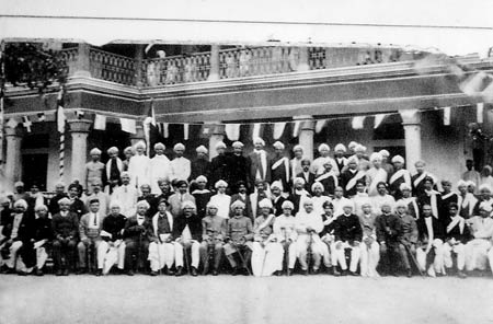 The image shows the participants of the first Kannada Sahitya Parishat which was formed in Bangalore in 1915.